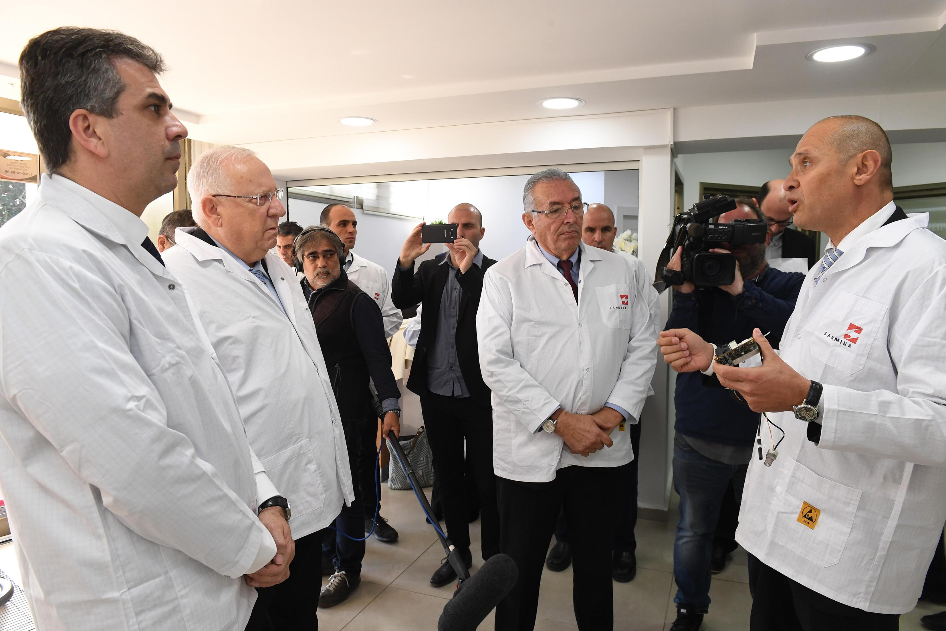 In honor of Israel 70th Independence, the office of the President of Israel, Reuven Rivlin, traveled for the first time from Jerusalem to Maalot-Tarshiha and for a full day the President held his meetings in the city. Tuesday, February 20, 2018. Photo Credit: Mark Neiman / GPO.